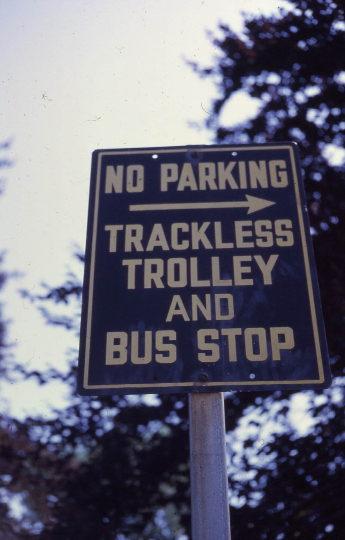 MBTA trackless trolley and bus stop sign, unknown location.